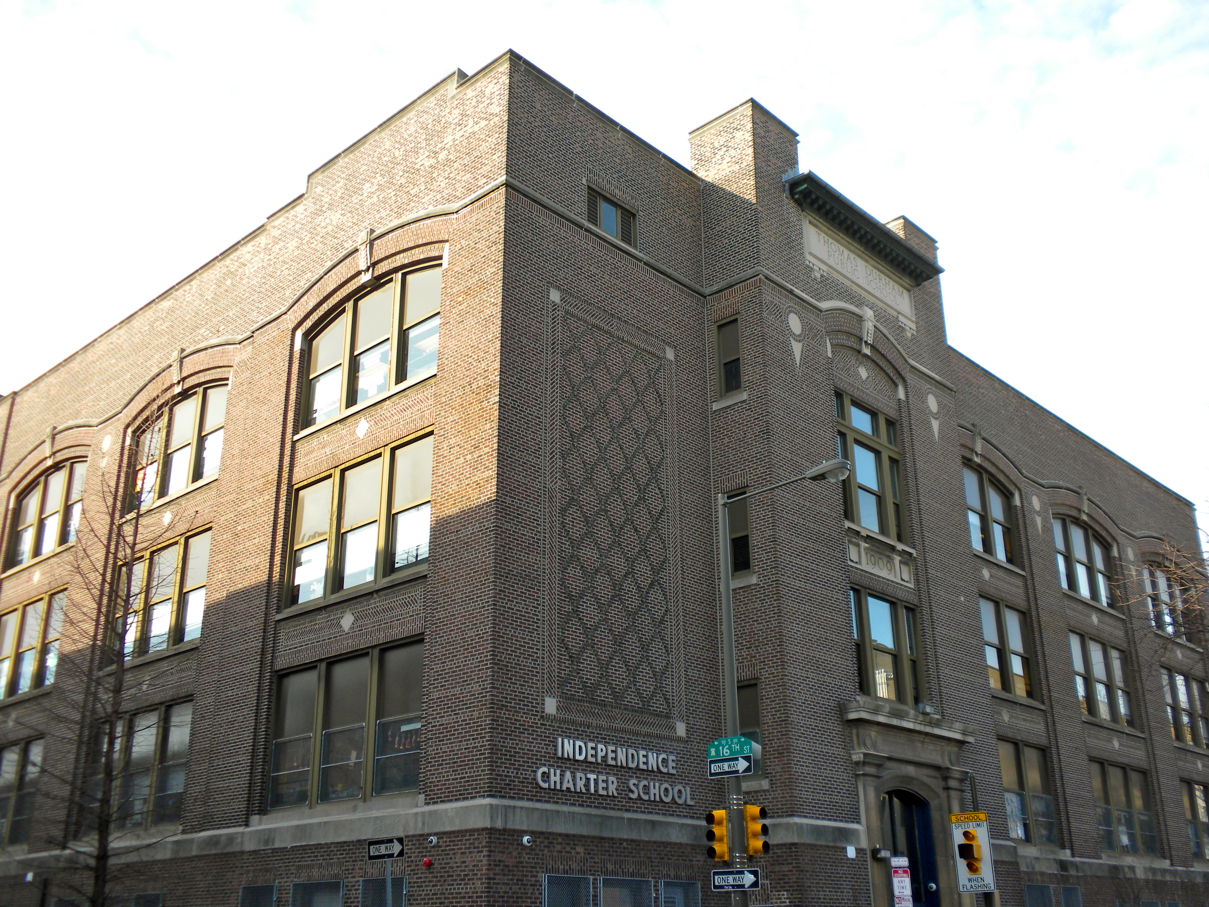 Thomas Durham School in Philadelphia. On NRHP since November 18, 1988. At 1600 Lombard Street in the far southern part of the Rittenhouse Square East neighborhood in Center City.